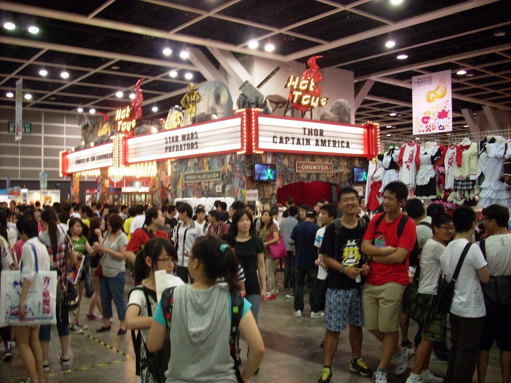 2011 Hong Kong ACG Fair